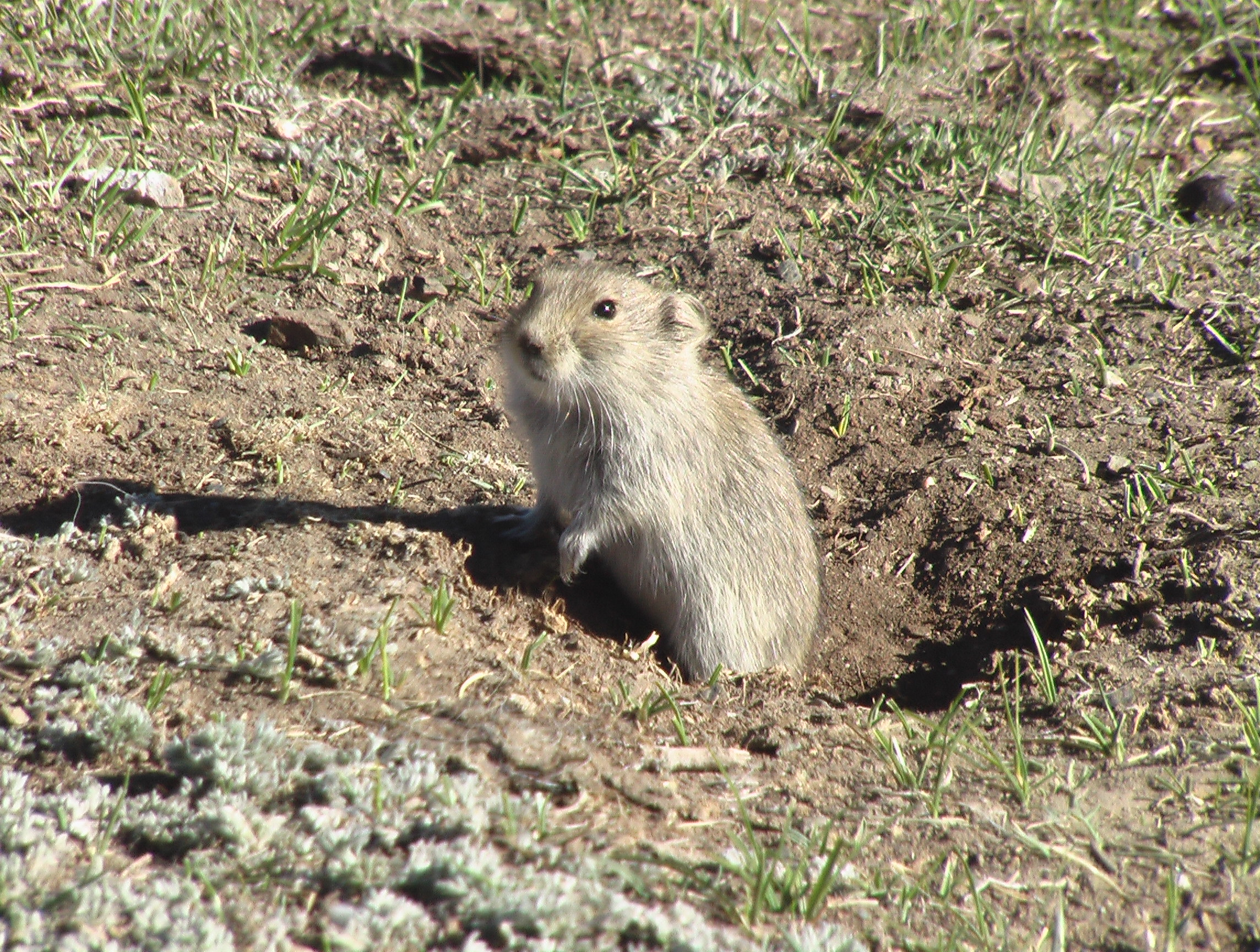 Lasiopodomys brandtii (or Microtus brandti) in natural conditions out of the official species range in Mongolian Altai mountains, elev. 2750 m, Govi-Altay province, Western Mongolia